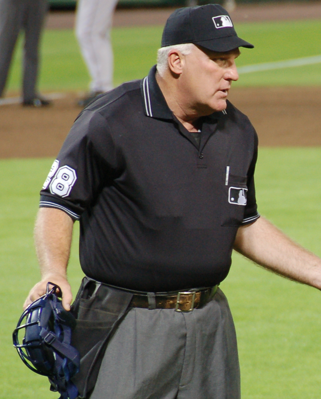 Photographer: Scott Ableman From Houston Astros manager Phil Garner complains after Frank Robinson convinces home plate umpire Larry Young to call a balk on Roy Oswalt, allowing the tying run to score for the Washington Nationals May 24, 2006